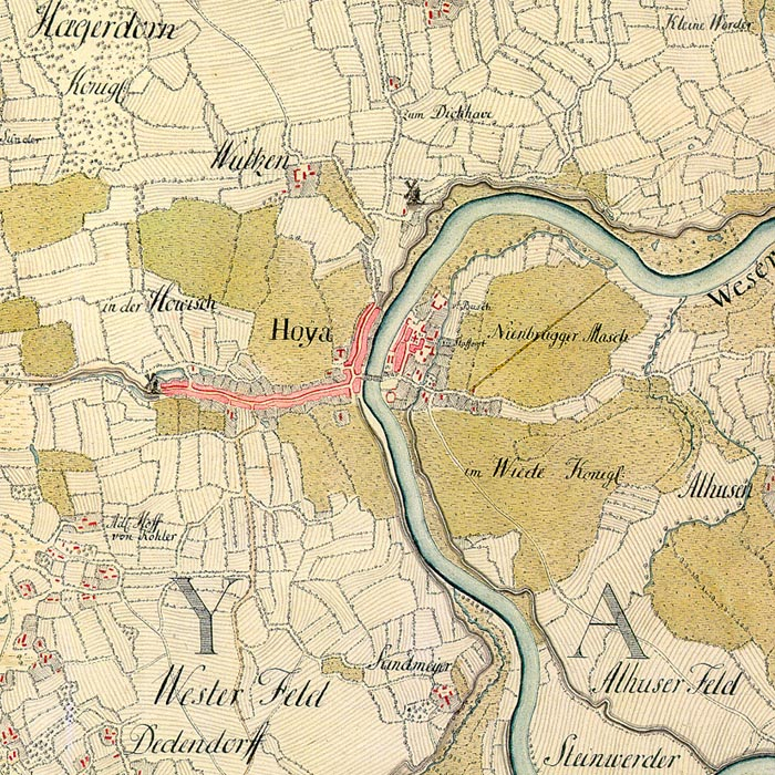 historical map of Hoya area, Lower Saxony, Germany